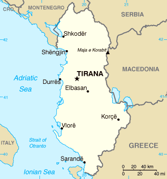 Albania map from CIA World Factbook